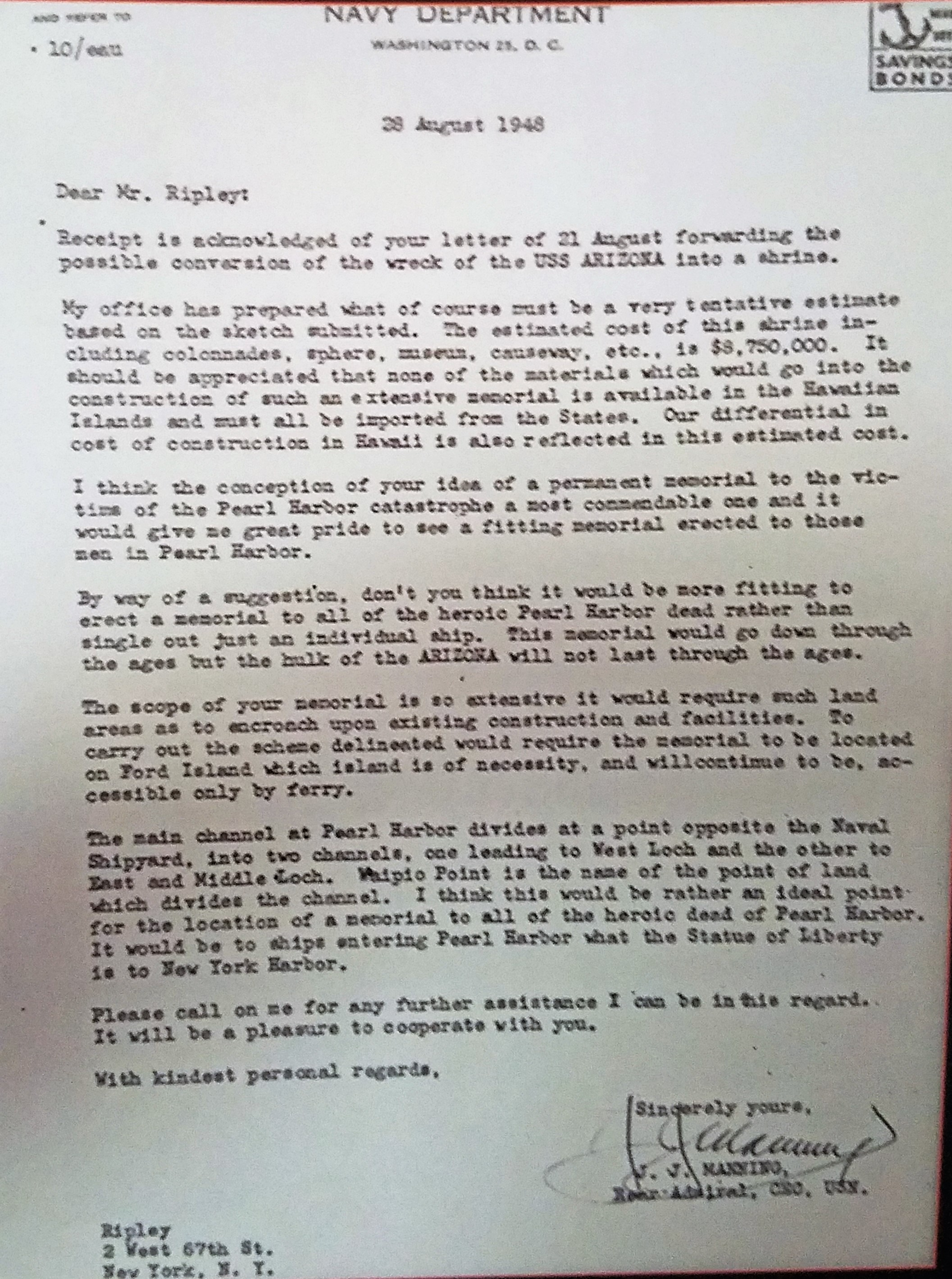 This is a letter written by RADM J.J. Manning to Robert Ripley regarding Ripley's desire for a permanent Pearl Harbor Memorial.